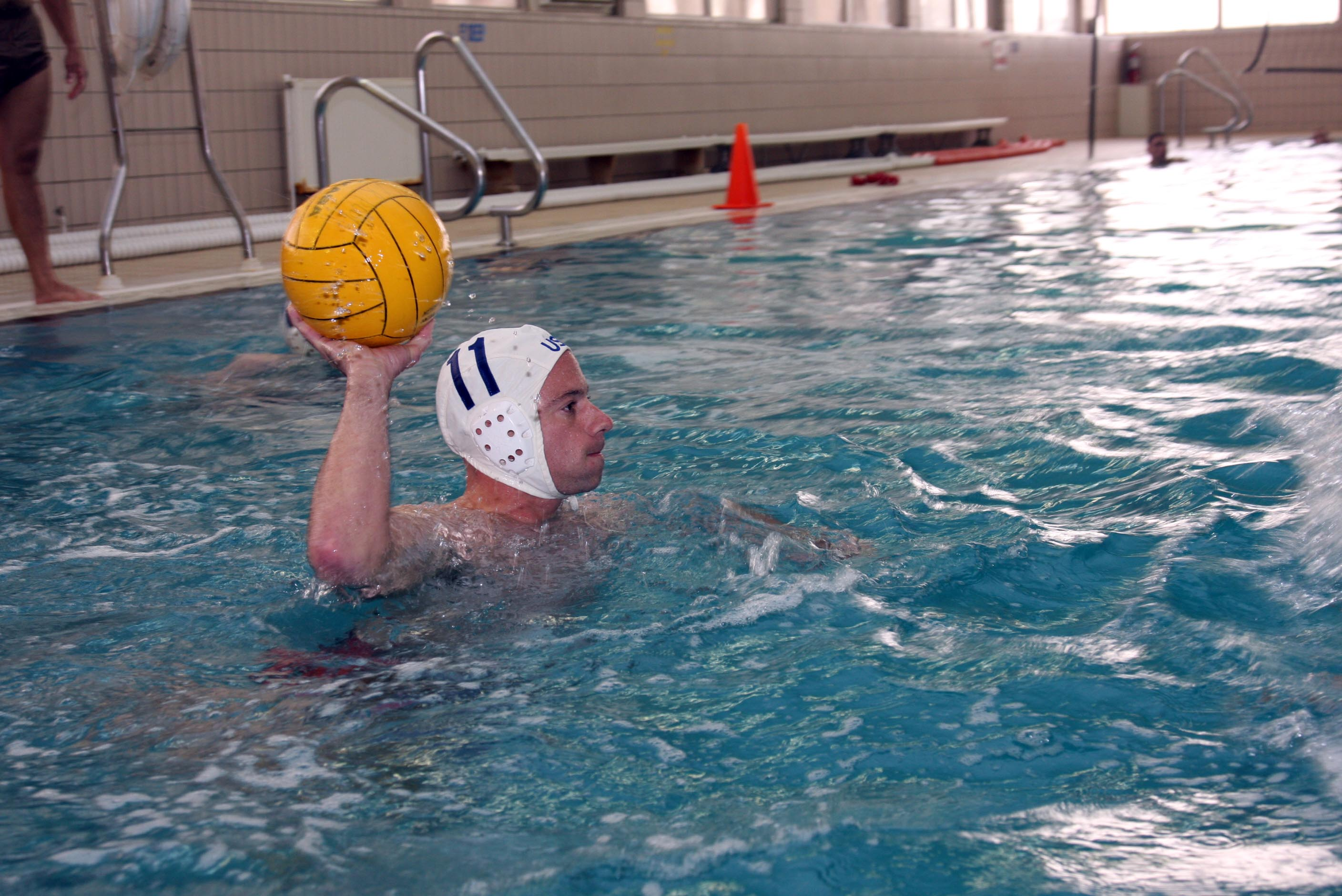 A U.S. Marine with 1st Reconnaissance Battalion prepares to throw a polo ball during a water polo tournament at Al Asad Air Base, Iraq, March 15, 2009. Water polo helps keep morale high for the Marines and Sailors deployed in support of Operation Iraqi Freedom.